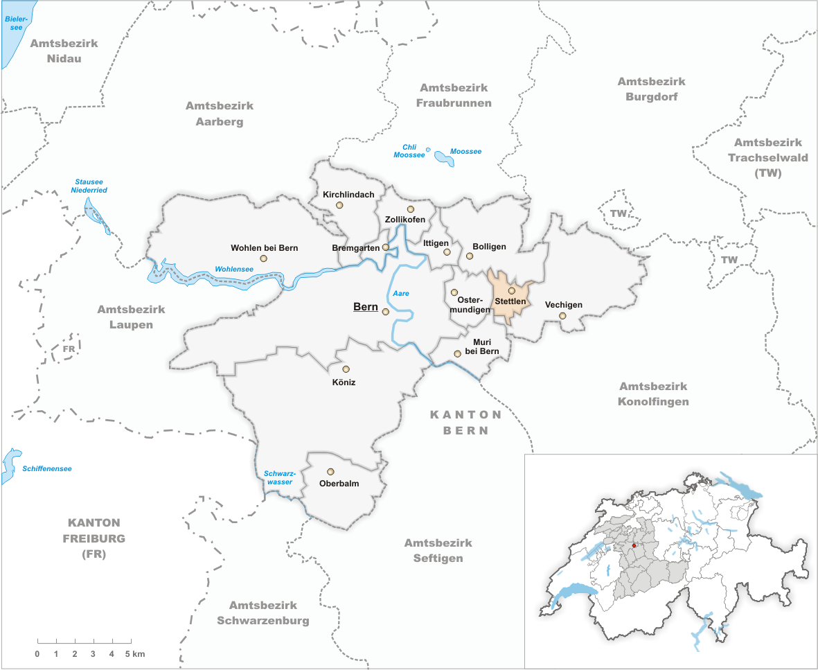 Municipality Stettlen